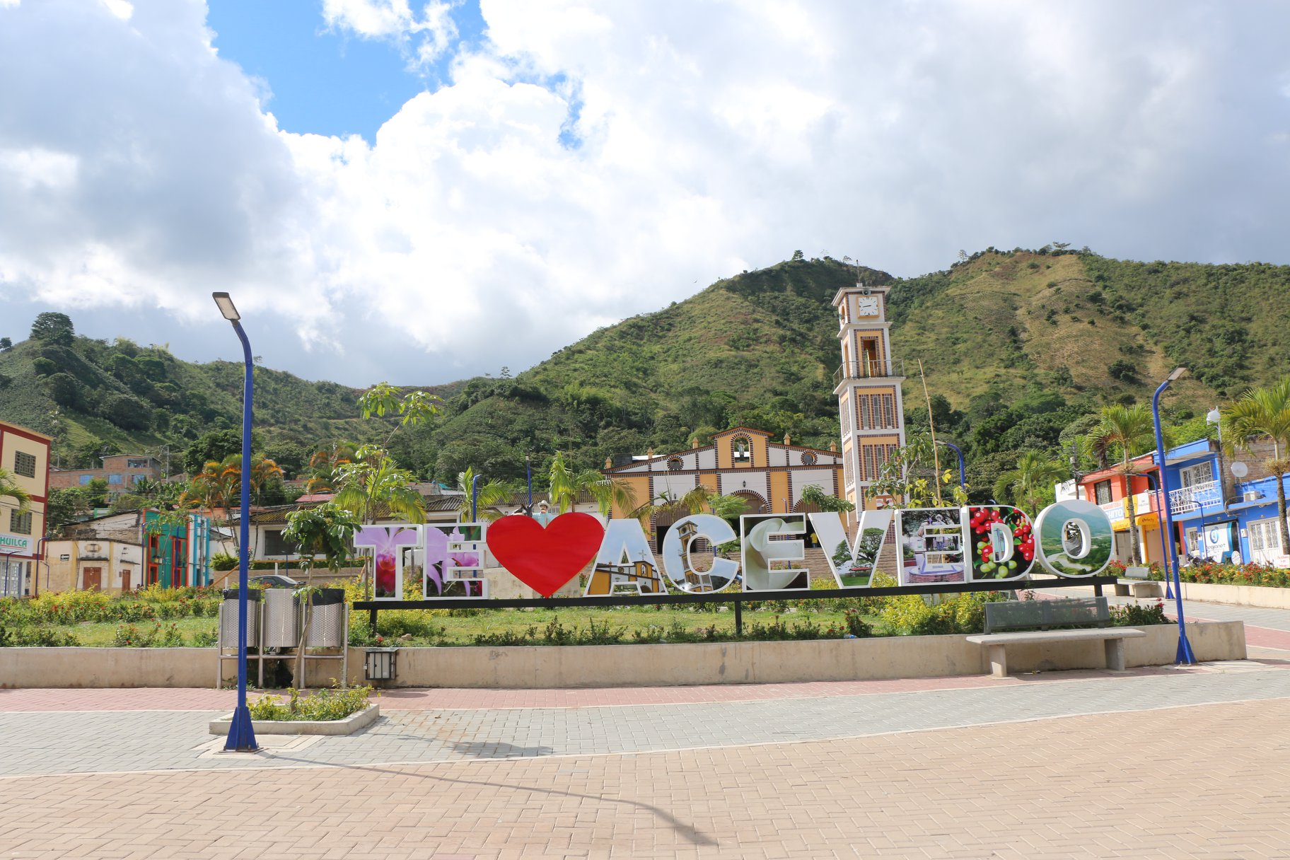 Parque Central Acevedo 2020